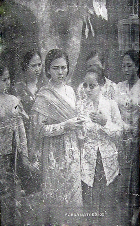 A film still from Sorga ka Toedjoe, a production by Tan's Film, showing Rasminah (Roekiah) and Hadidjah (Annie Landauw) standing together.